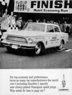 A 1962 magazine advertisement for Champion Spark Plug company promoting the Mobil Economy Run winner for the year, the Rambler American. The ad is promoting the yearly event, the champion vehicle, and the spark plugs. It serves as an example of how the Mobil Economy Run was promoted and the extra publicity it received.